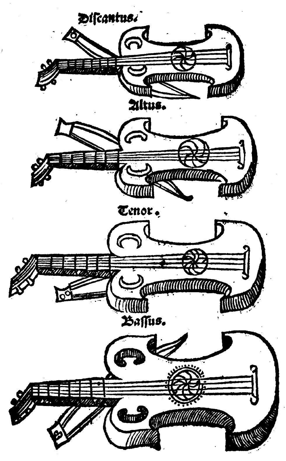 Bowed string instruments portrayed in Martin Agricola's treatise Musica Instrumentalis Deudsch (1528-1545).